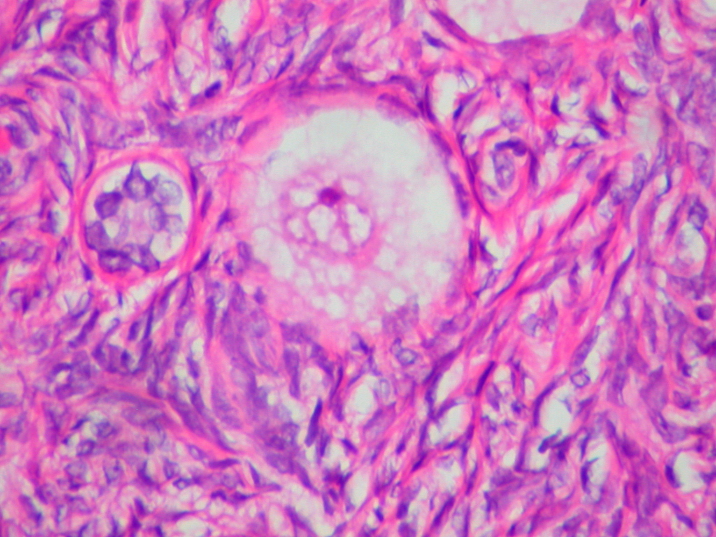 This ovum is in a primary follicle in an ovary removed from a 42-year-old woman with a benign ovarian cyst. Baby girls are born with all the ova they will ever produce, popping out one (and occasionally two) every 28 days from puberty until menopause. When it's time for the egg's great adventure, the ovarian tissue that encases the anointed egg proliferates and becomes differentiated into granulosa and theca cells, producing the much larger, cystic Graafian follicle. When mature, the follicle ruptures, and the egg explodes from the torn surface of the ovary (occasionally producing a pain called "mittelschmerz") and is swept up into the nearby fallopian tube, where, if sperm make the rendezvouz, it is fertlized and converted into a zygote that begins dividing. This early embryo continues its way down the tube and into the uterus, where it implants itself and develops into a baby. 400X, Hematoxylin and eosin. Pathological and histological images courtesy of Ed Uthman at flickr.